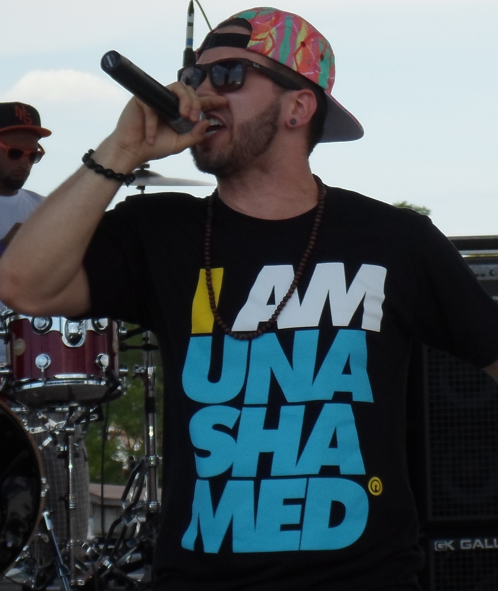 Andy Mineo performing live at Ichthus Music Festival in June 2012.